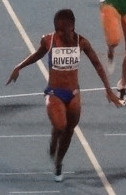 2016 IAAF World U20 Championships in Bydgoszcz, 200m women semi-final